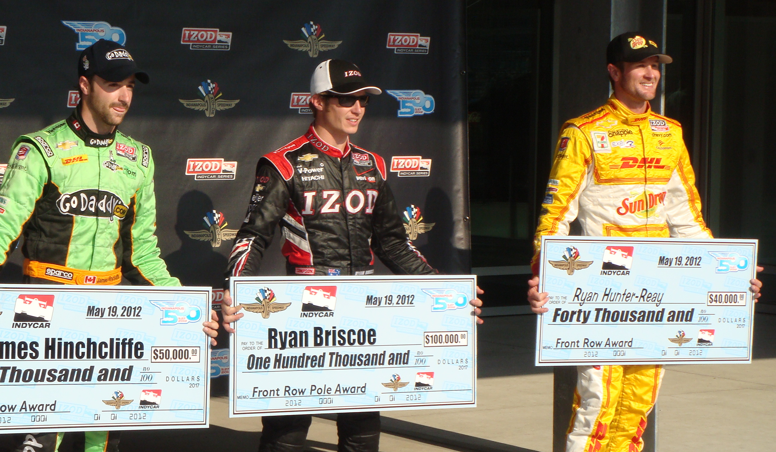 Front row qualifiers for the 2012 Indianapolis 500 (L to R): James Hinchcliffe (qualified 2nd), Ryan Briscoe (1st), Ryan Hunter-Reay (3rd)